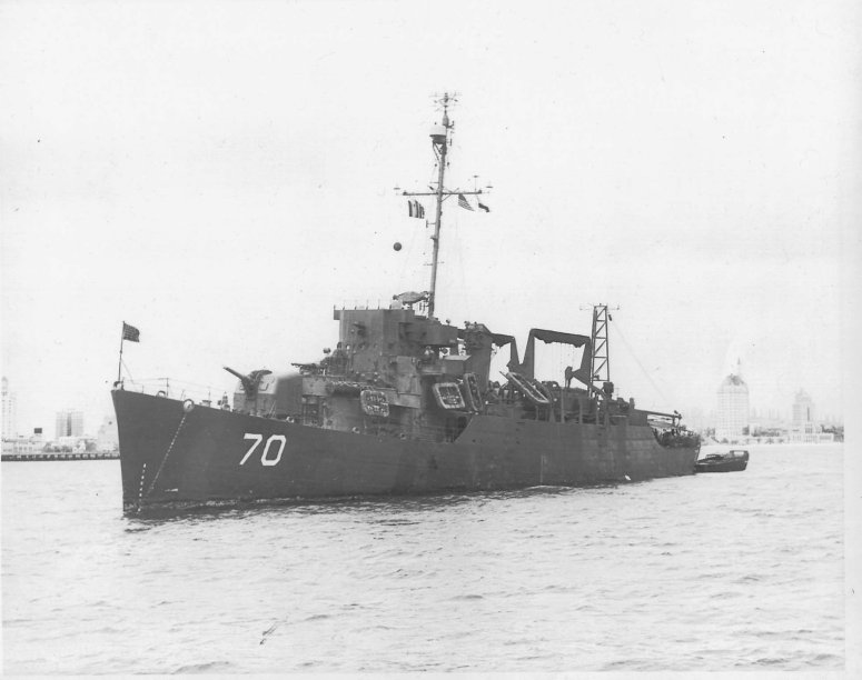 The U.S. Nav high-speed transport USS Pavlic (APD-70) at anchor in San Diego Bay, California (USA), in mid-1946, following her return from occupation duty in Japan.